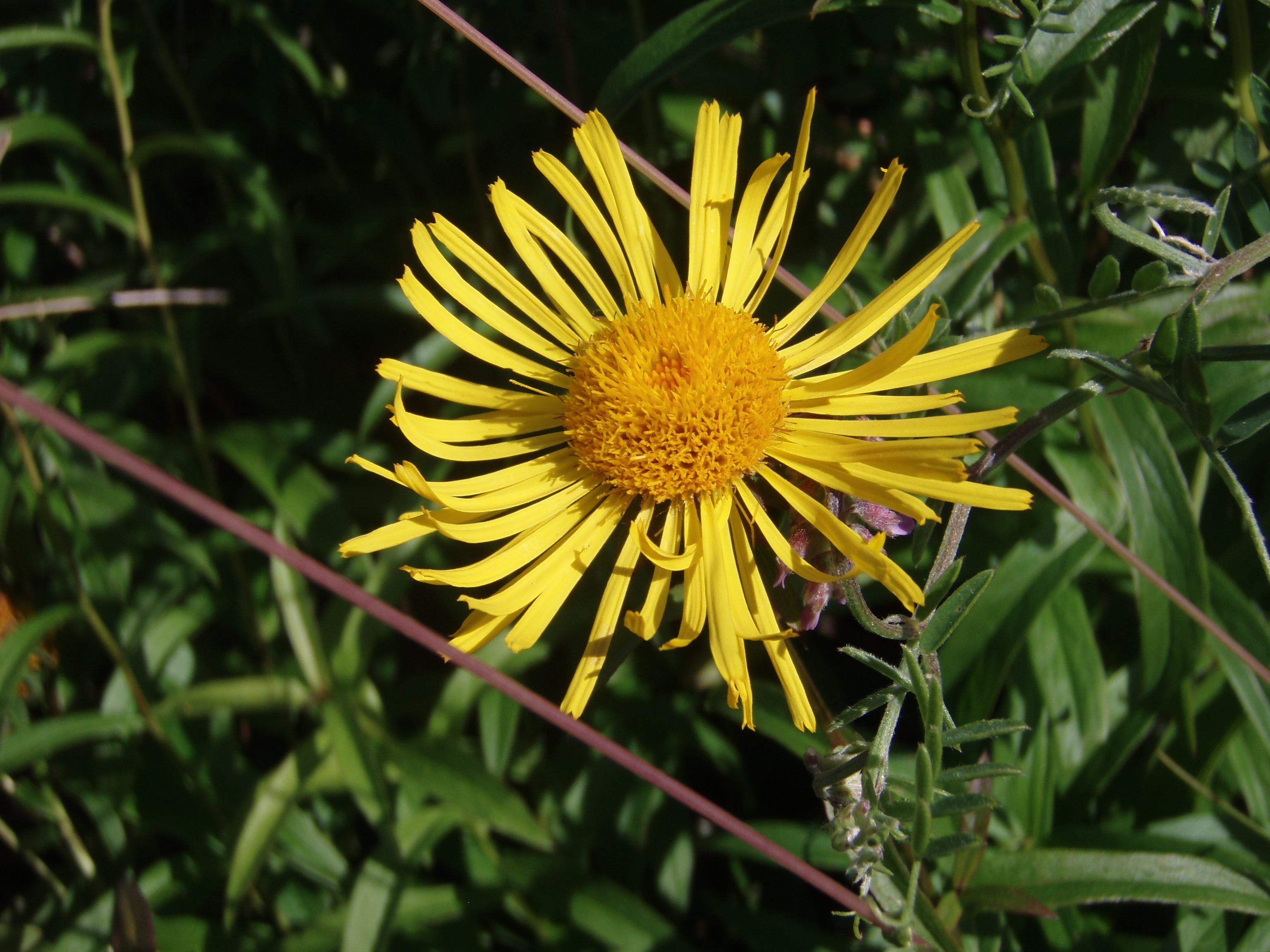 «Irish fleabane», Norwegian: «Krattalant»), taken at the island Asmaløy in Norway July 15, 2006 by Ståle Johnsen (the uploader).